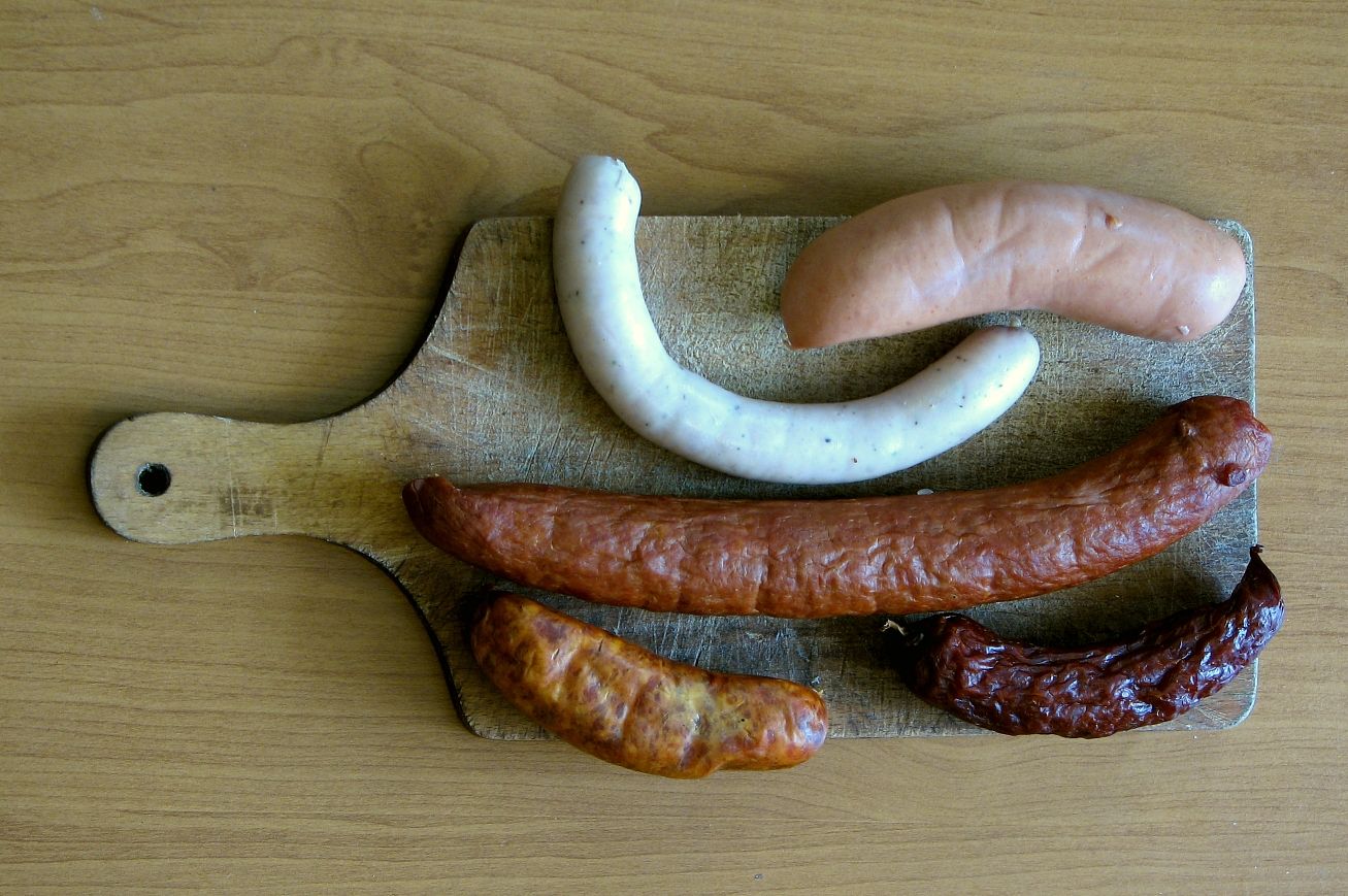 polish sausages, kiełbasy polskie, parówkowa, kiełbaska biała, góralska, surowa, myśliwska.